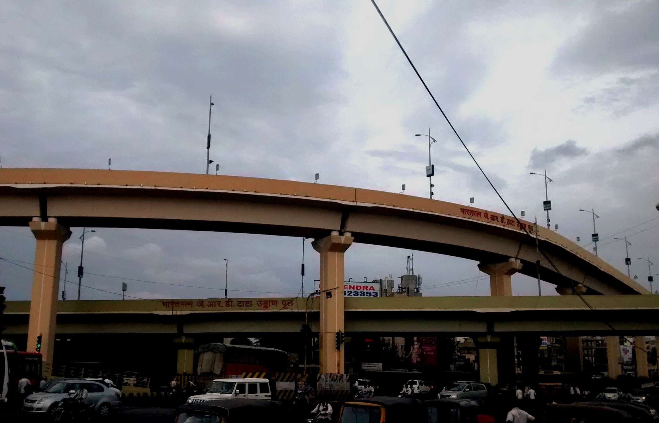 Nashik Phata Flyover.